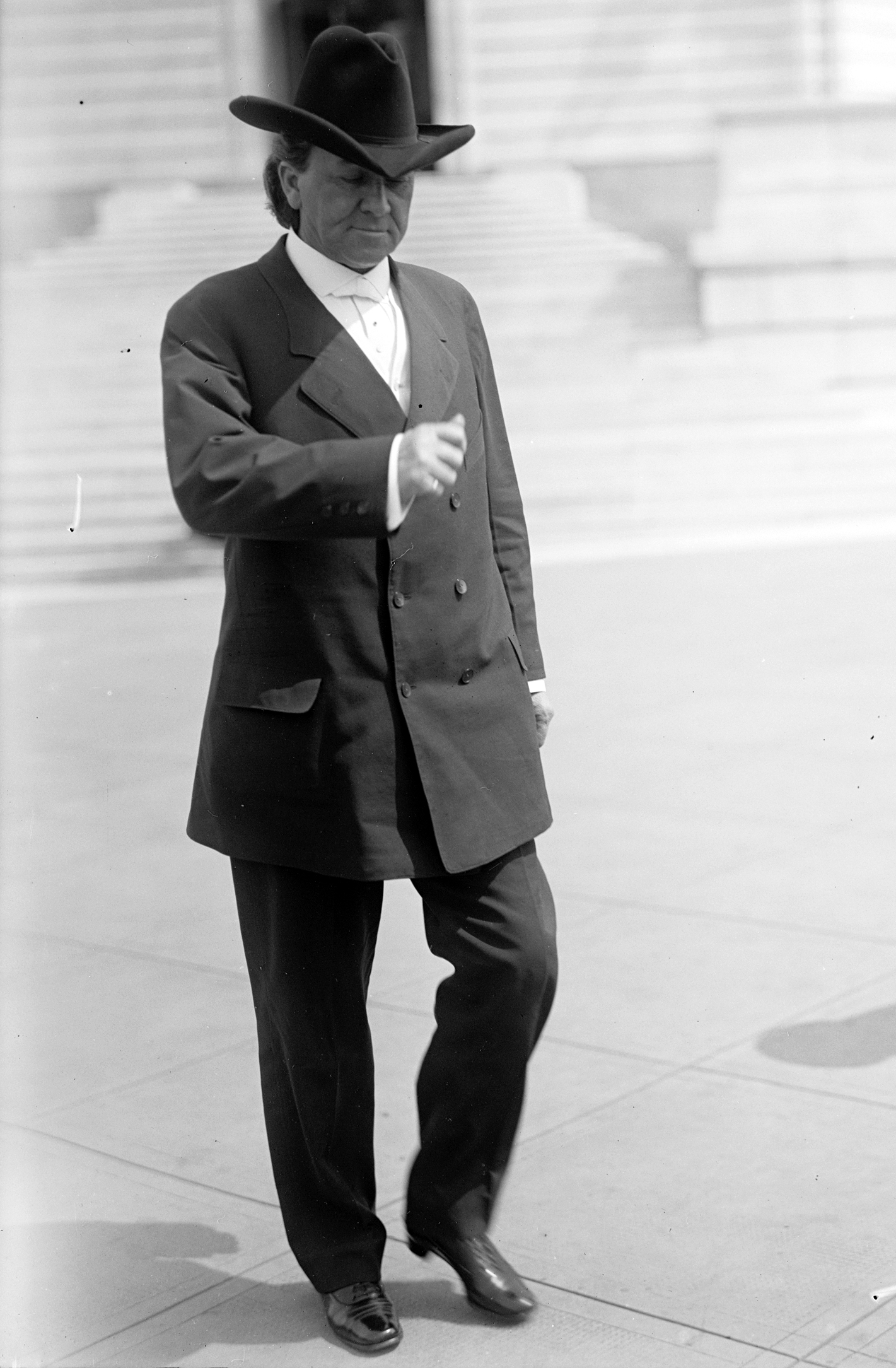 James Walter Elder, US Representative from Louisiana